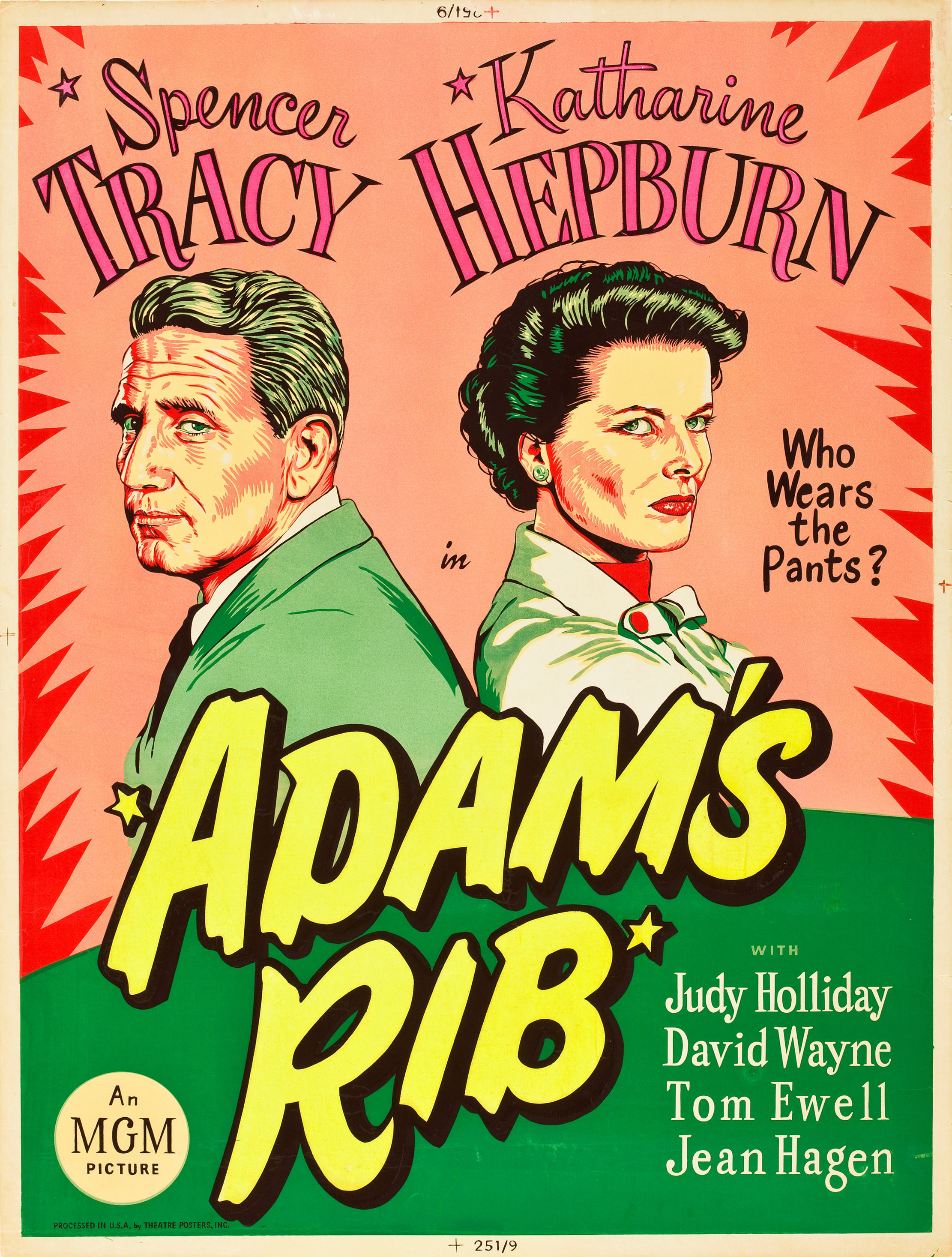 Alternate theatrical poster for the American release of the 1949 film Adam's Rib.